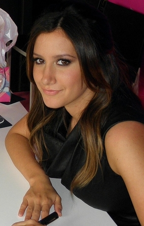 Me and Ashley Tisdale during the signing event for her movie Sharpay's Fabulous Adventure in Madrid, Spain. May 23, 2011.